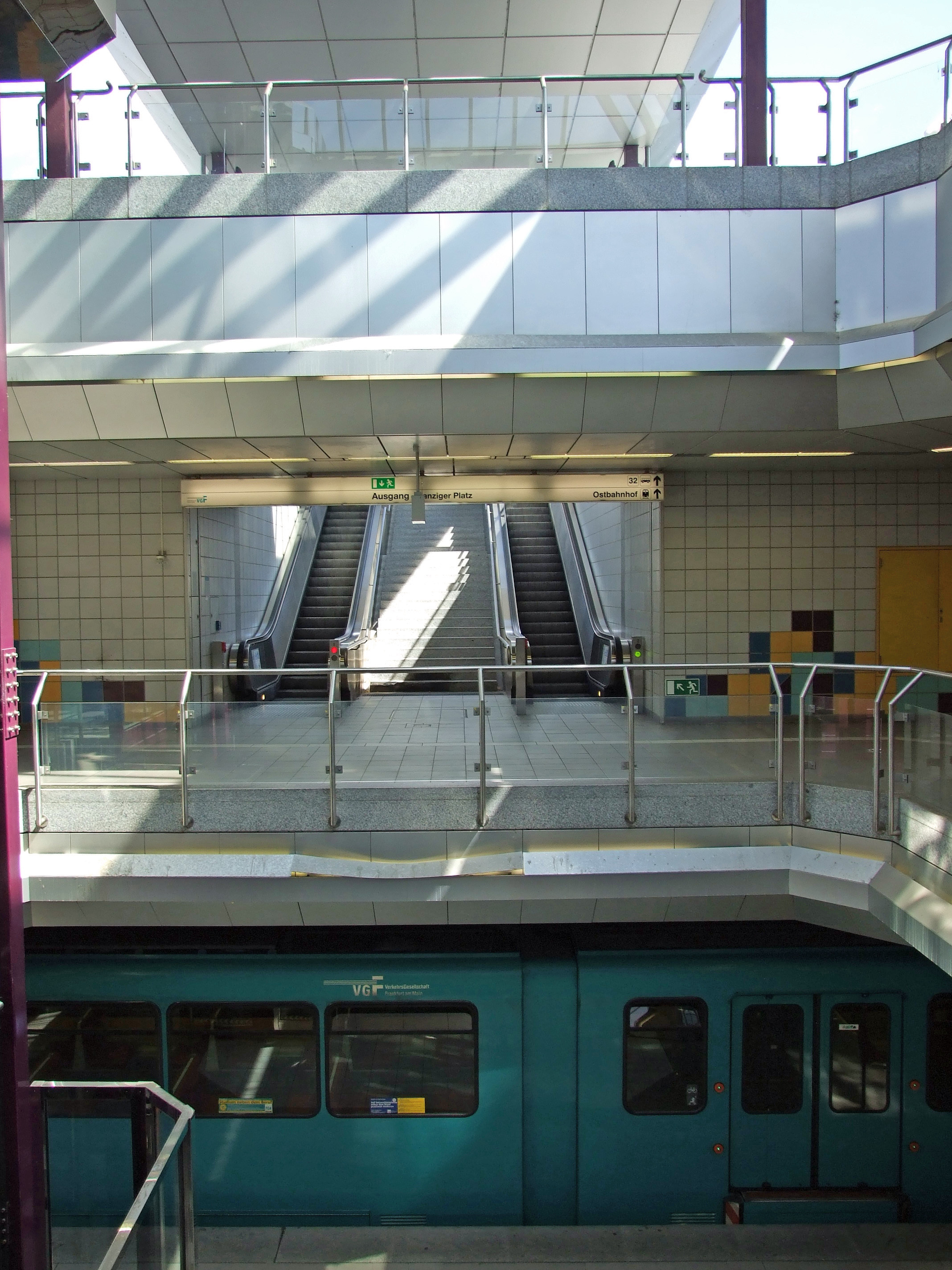 A, B and C floor of underground station Ostbahnhof in Frankfurt am Main Ostend